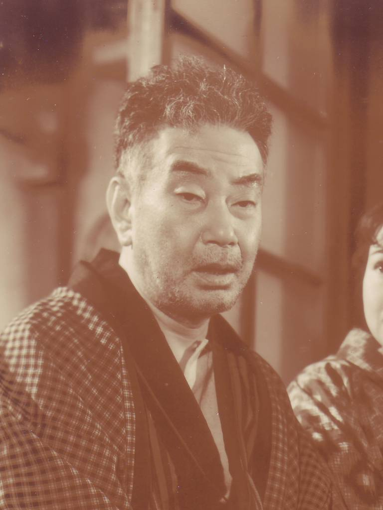 Nakamura Ganjiro II (Kabuki actor). Studio Still of the 1958 Japanese film "Osaka no onna (Woman in Osaka) " (Daiei Film).